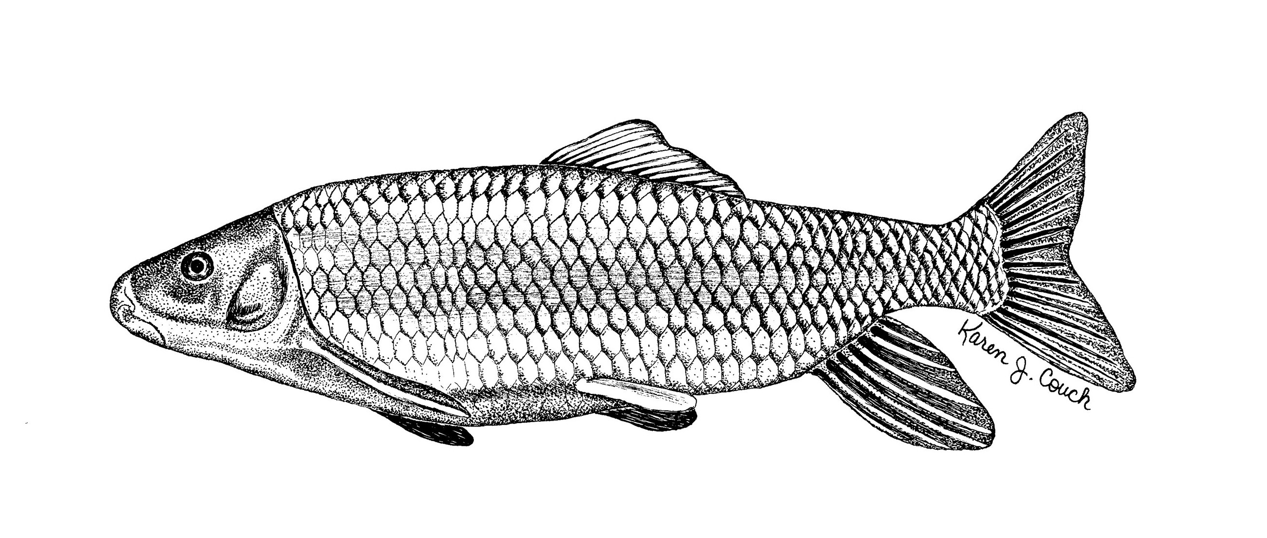 Robust Redhorse (Moxostoma robustum) Source: WO-ART-102-CDCouch1 Downloaded from: and cropped.